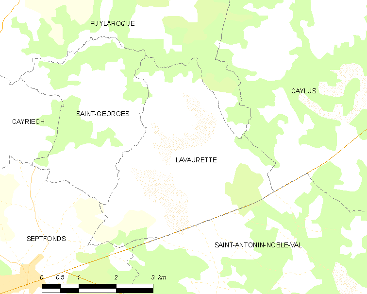 Map of French municipality Lavaurette